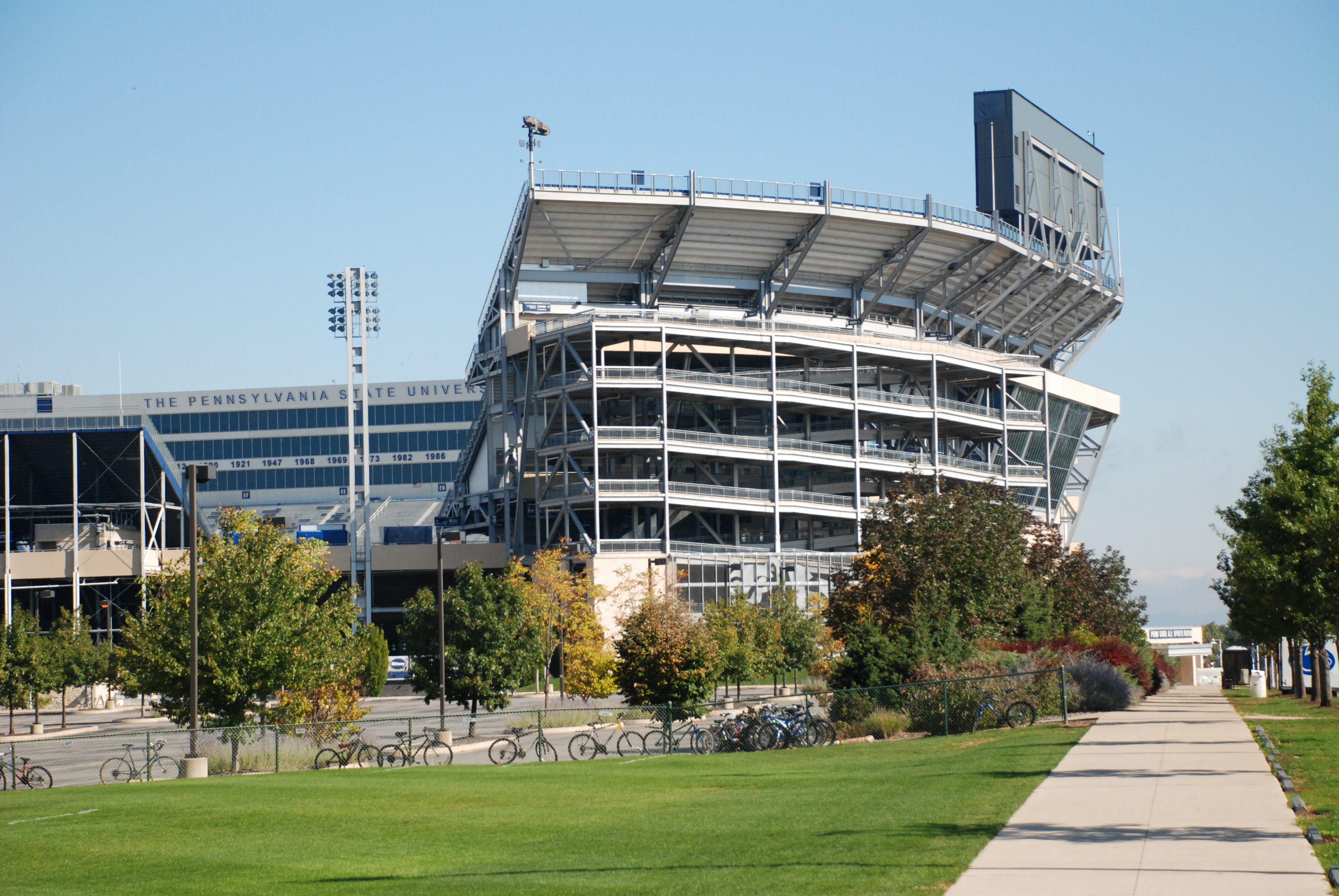 An image of Beaver Stadium from the side on a sunny day in Pennsylvania.